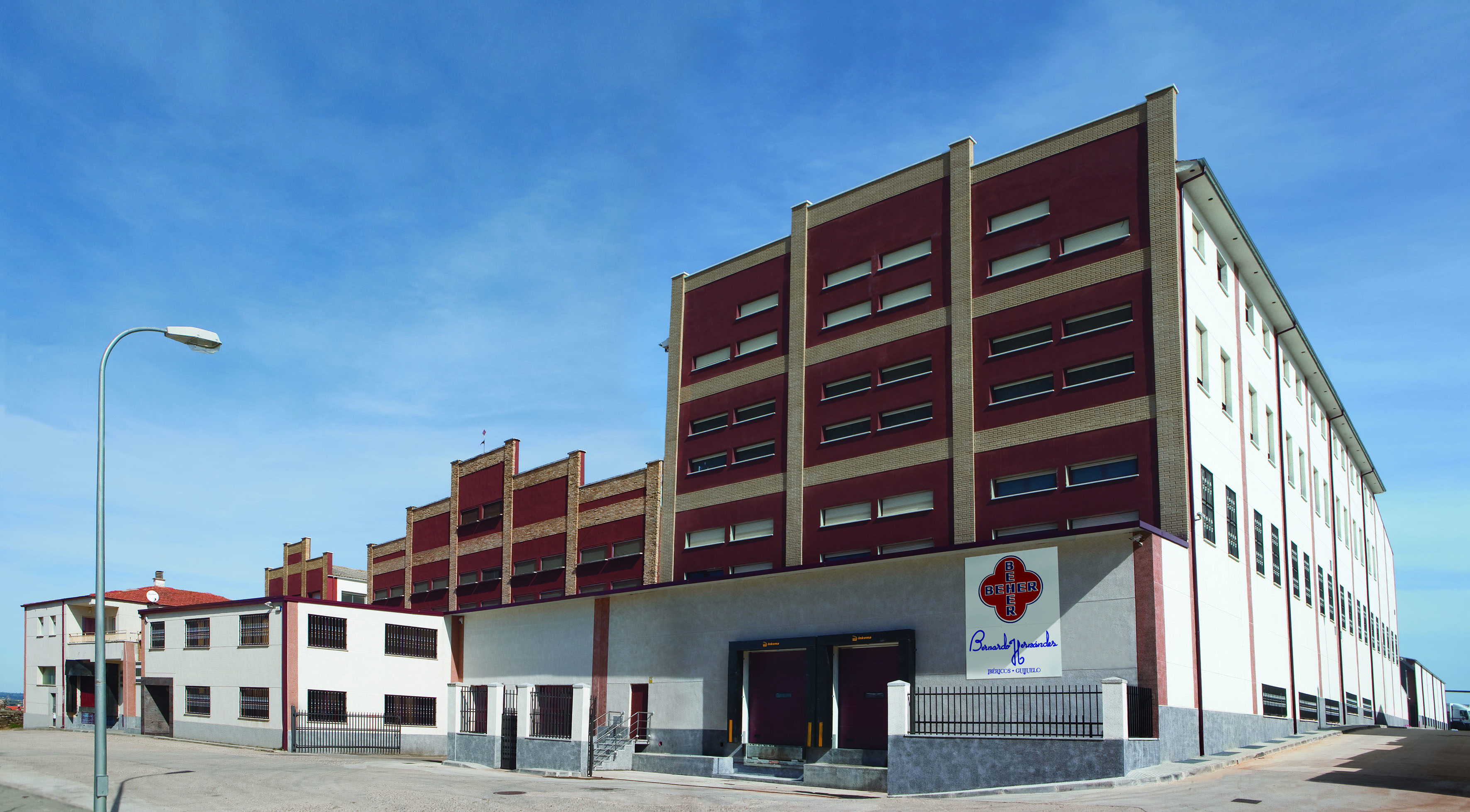 Spanish ham producer company BEHER, Bernardo Hernandez. In Guijuelo, Salamanca, Spain.